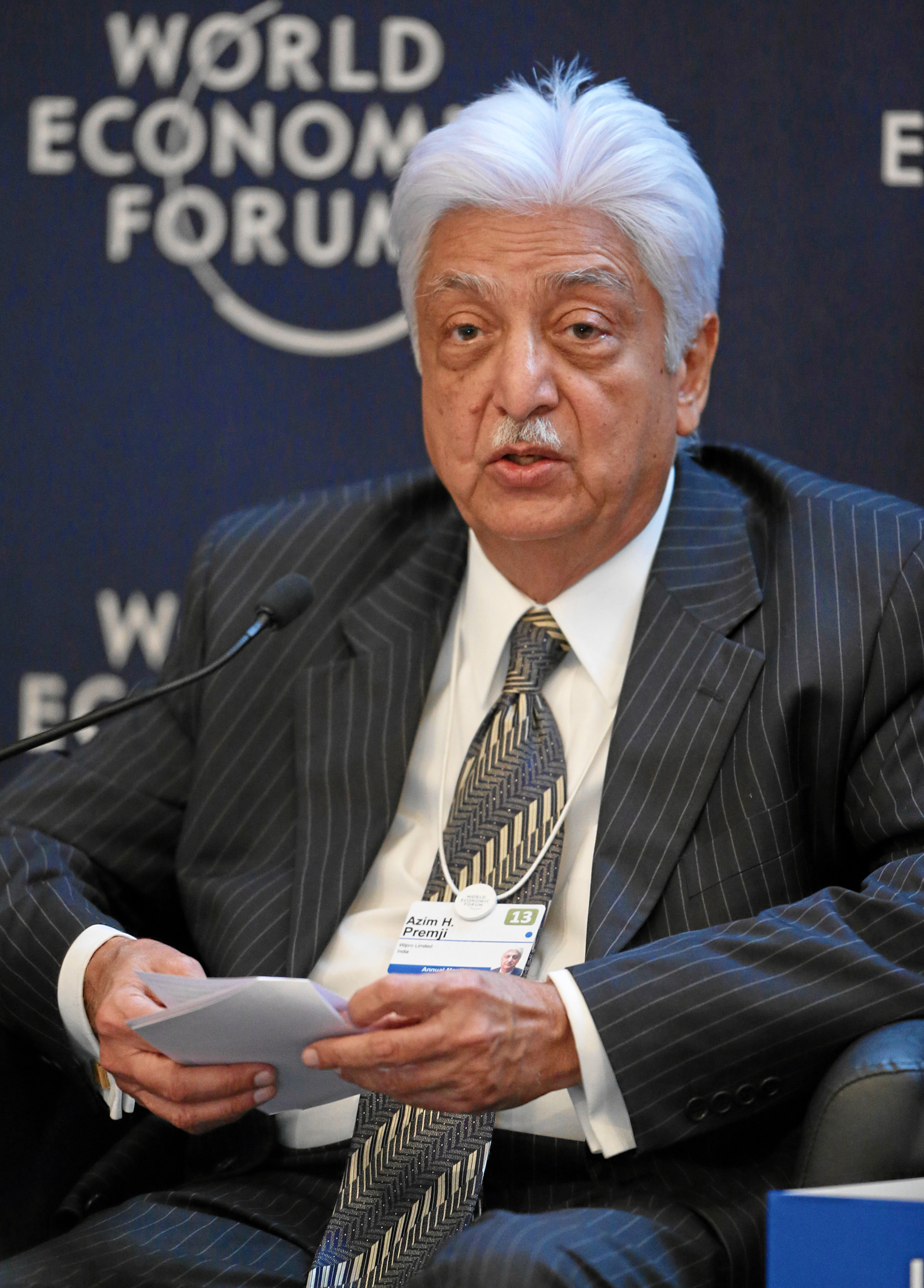 DAVOS/SWITZERLAND, 24JAN13 - Azim H. Premji, Chairman, Wipro, India, looks on during the session 'Unconventional Energy- Sustaining Natural Resources' at the Annual Meeting 2013 of the World Economic Forum in Davos, Switzerland, January 24, 2013.. . Copyright by World Economic Forum. . Moritz Hager